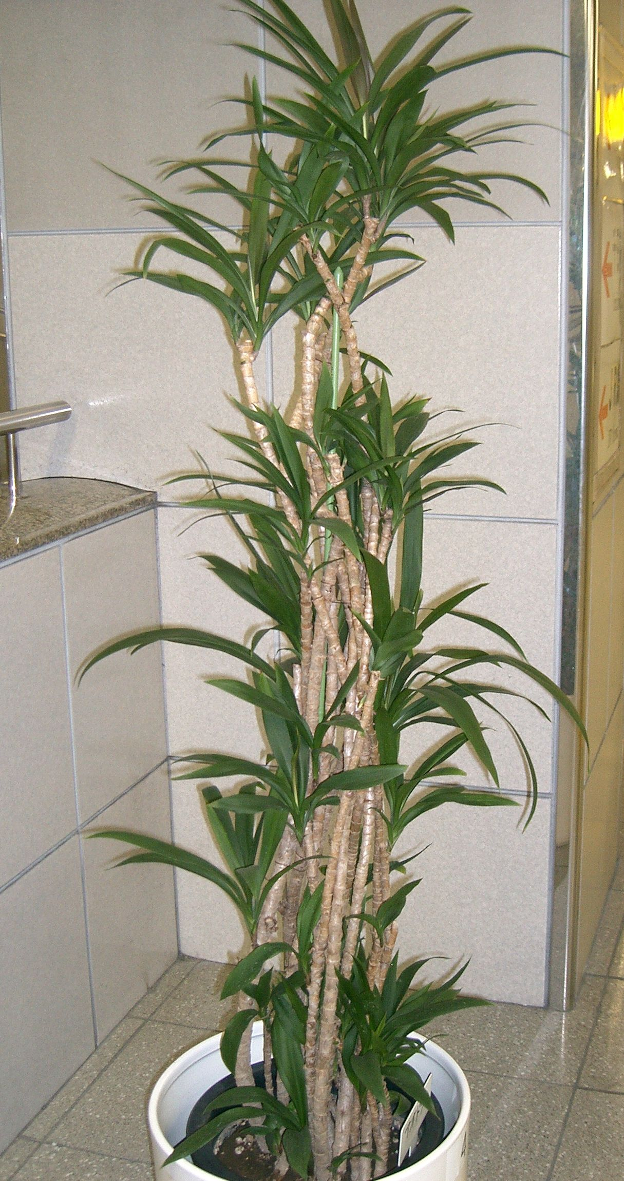 Cordyline stricta